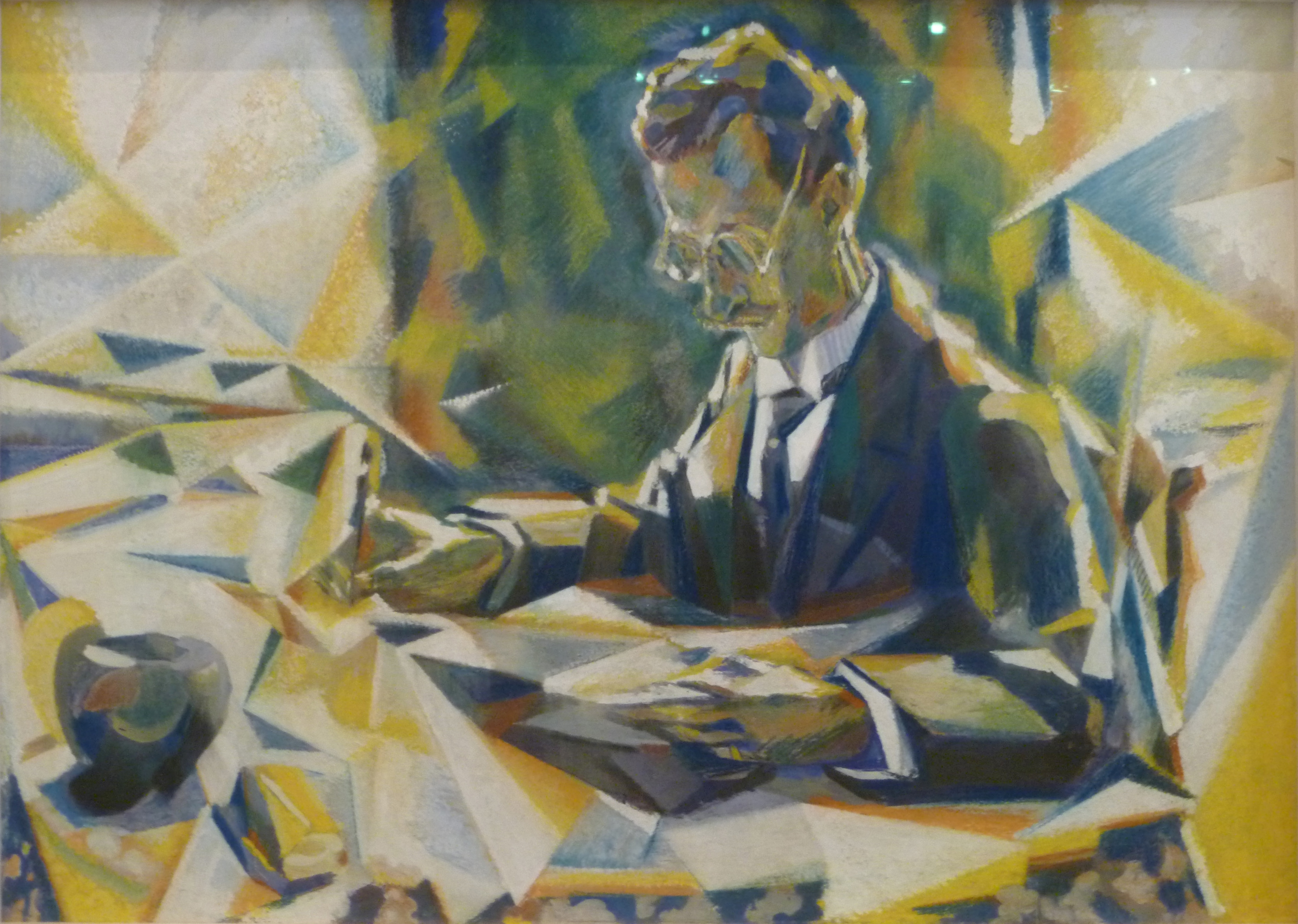 Jules Schmalzigaug (1916-1917) "Baron Francis Delbeke"; gouache and pastel on cardboard; Royal Museums of Fine Arts, Brussels